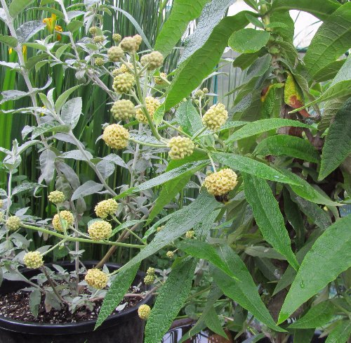 Buddleja globosa HCM98017 in flower June 2012